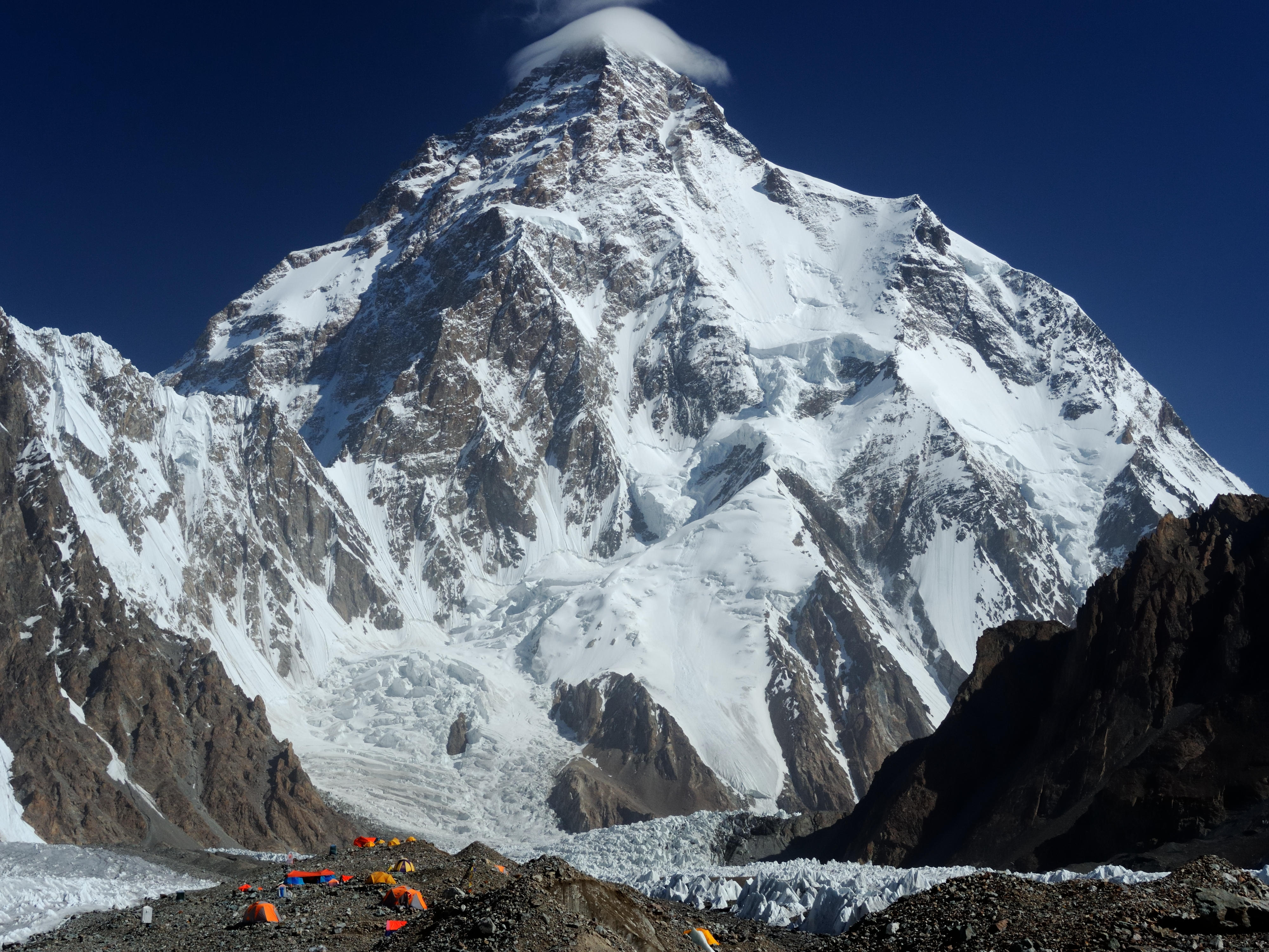 K2 (also known as Chogori) from Broad Peak Base Camp